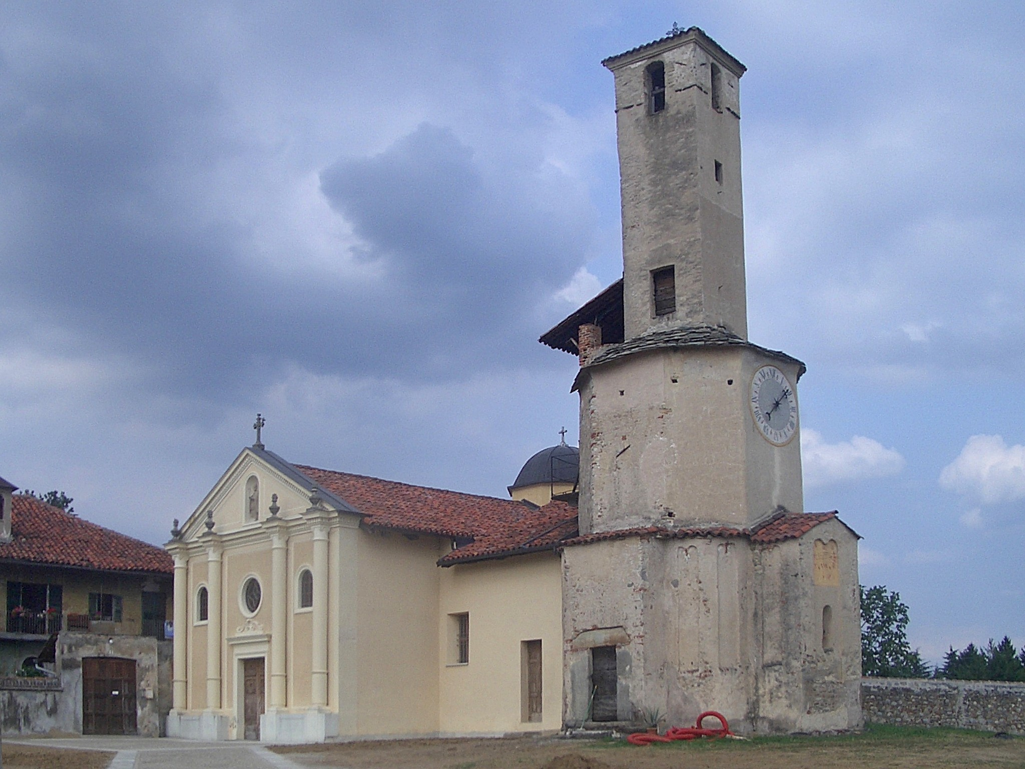 San Ponso (province of Turin), the romanesque baptistery and the parish church